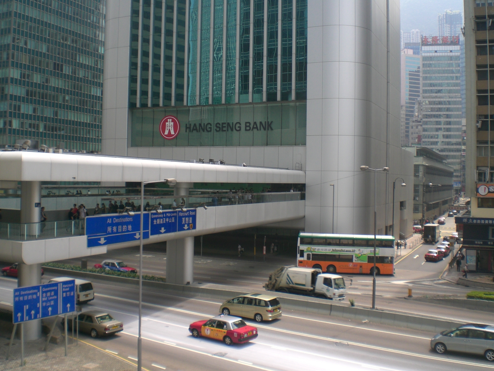 恆生銀行 中區行人天橋系統 干諾道中 Photographer is User:SeaLai Ho